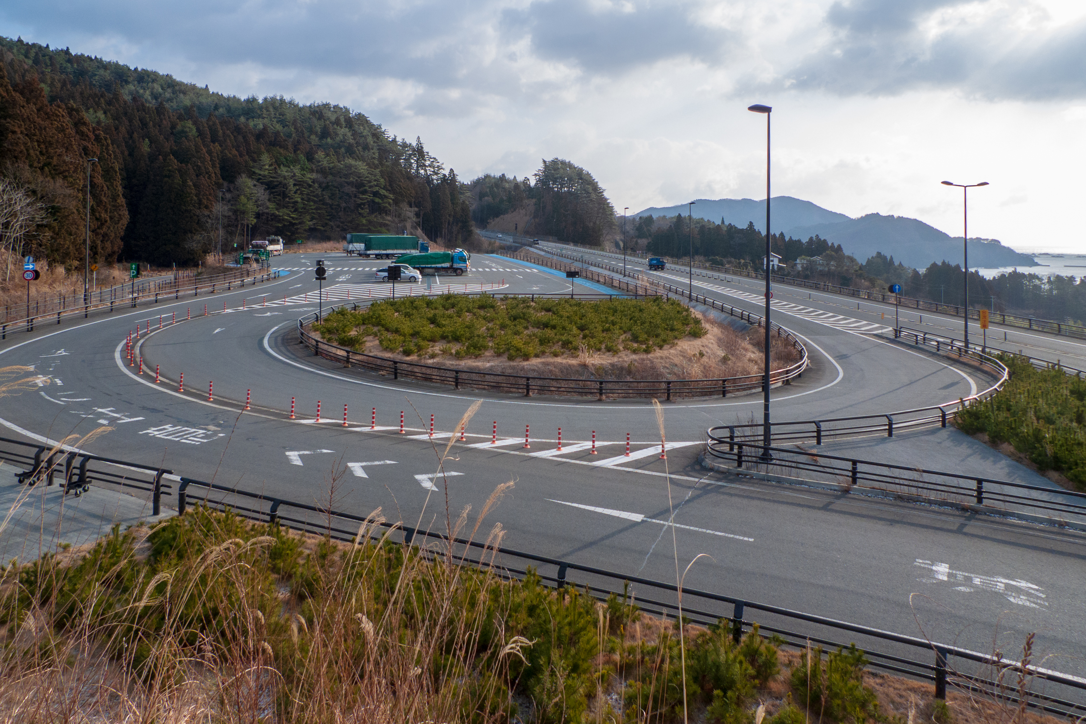 Funagawara Parking Area on the Sanriku Expressway in Ofunato City, Iwate Prefecture, Japan